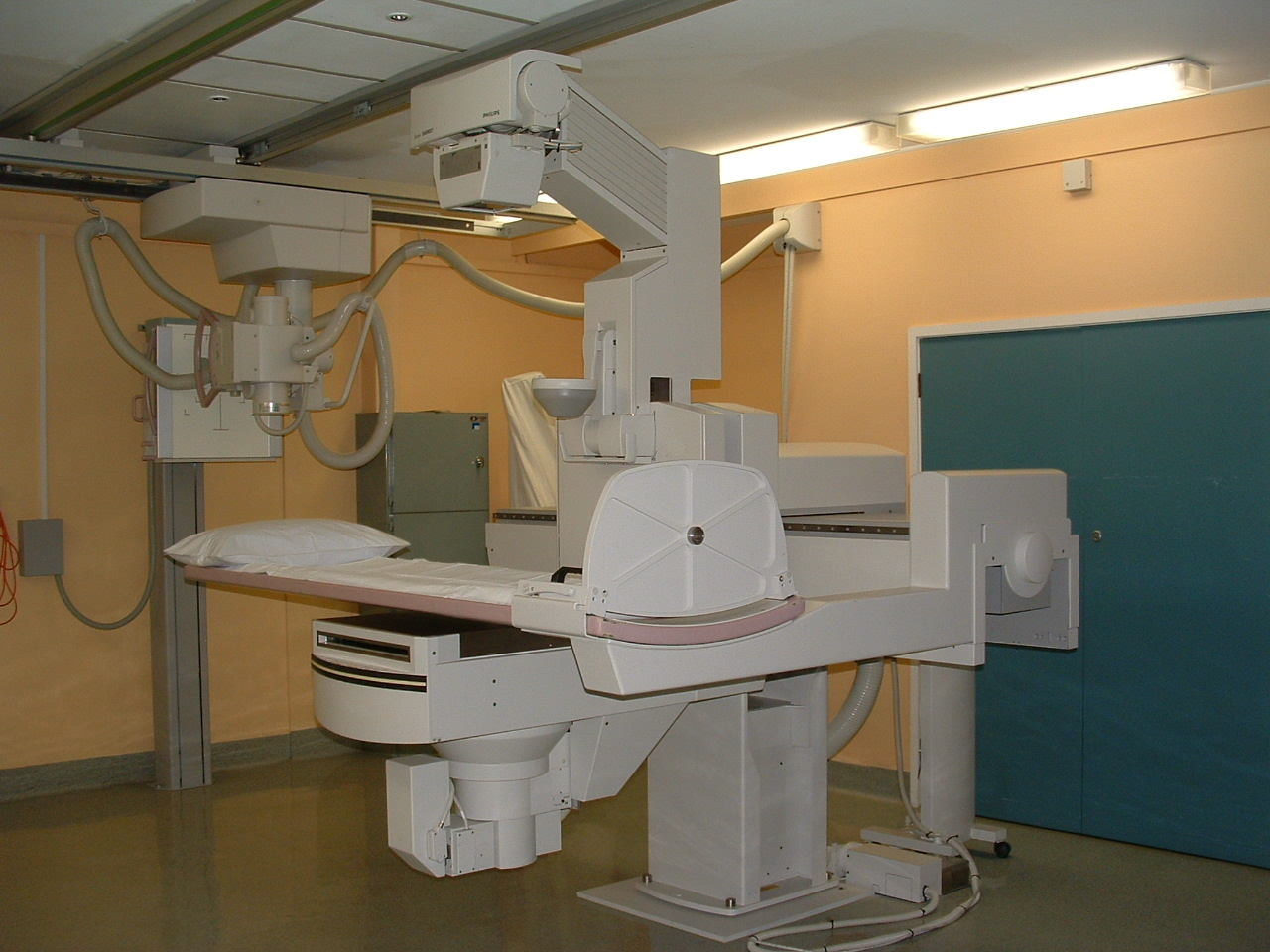 An over-couch XRT fluoroscopy system.